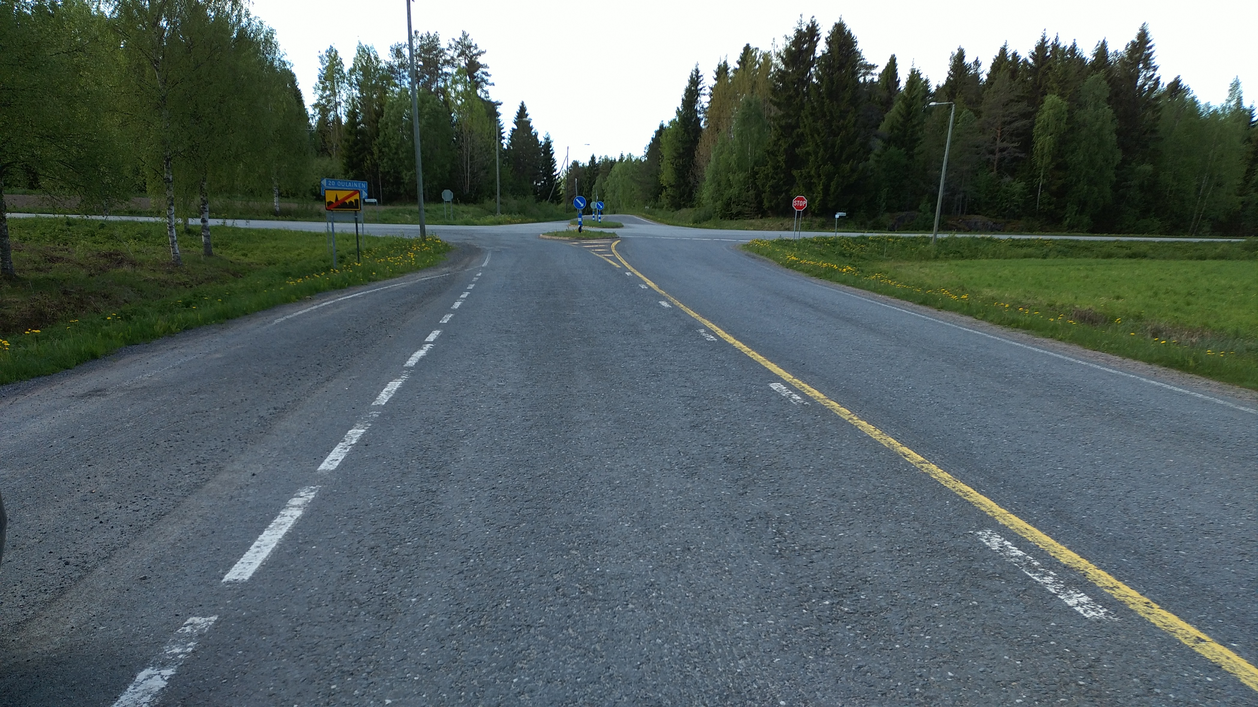 The regional road 787 in Finland, at the crossing of the regional road 786 in Merijärvi, seen towards Alavieska in the the South-West.